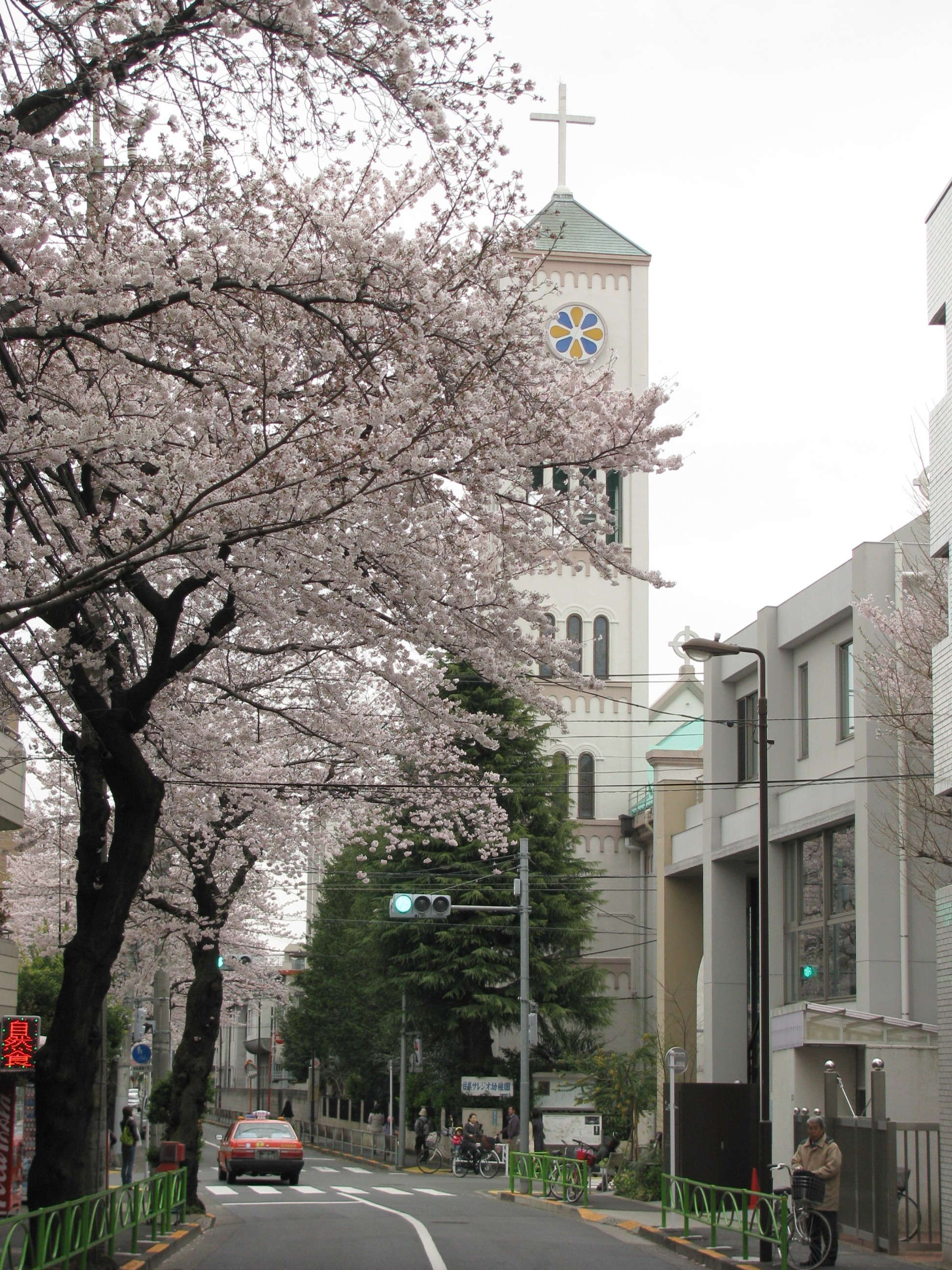 The Sakura trees and the Himonya Catholic Church. This located in This located in Meguro, Tokyo, Japan.